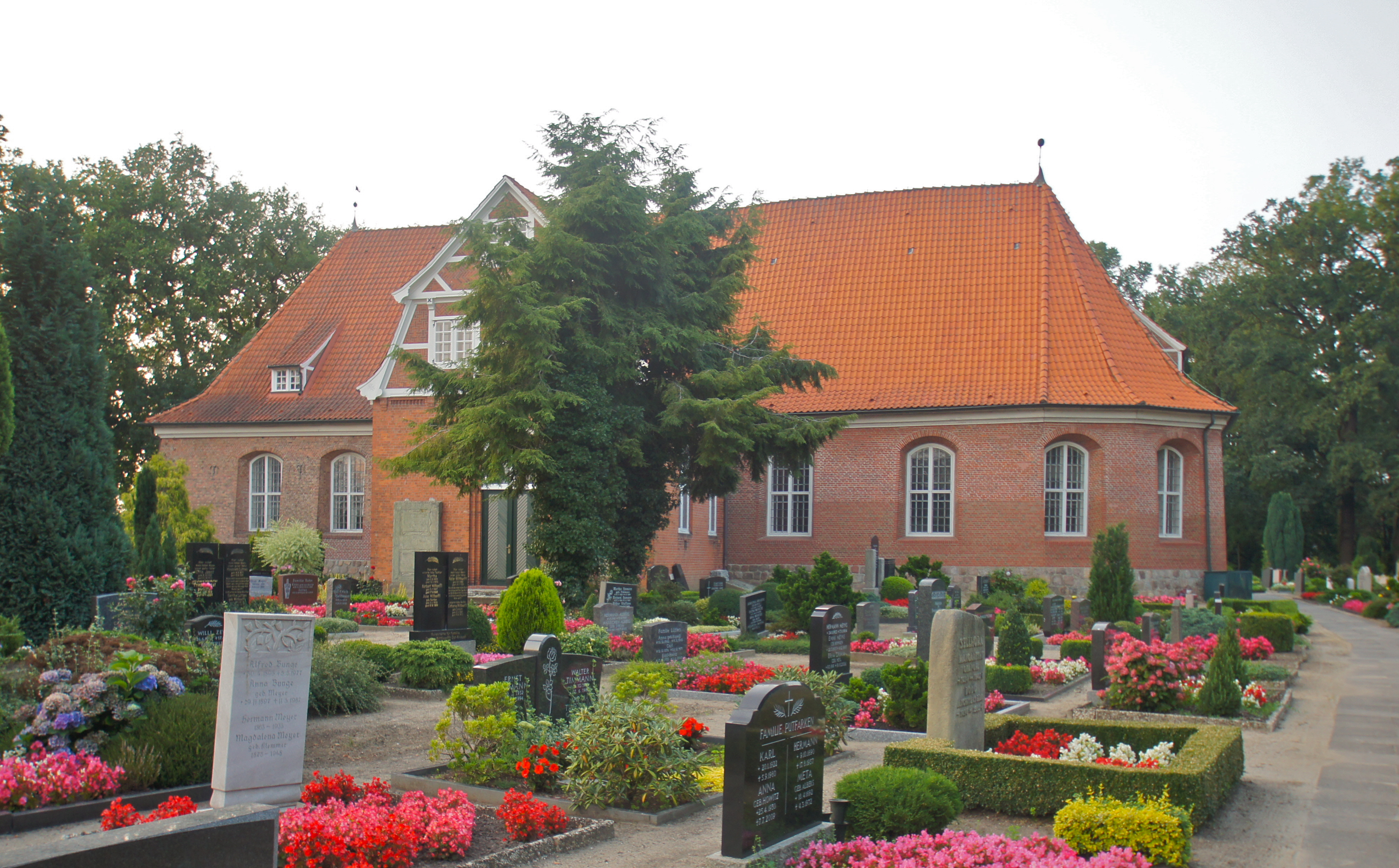 Hamburg (Kirchwerder), Germany: Saint Severin's Church